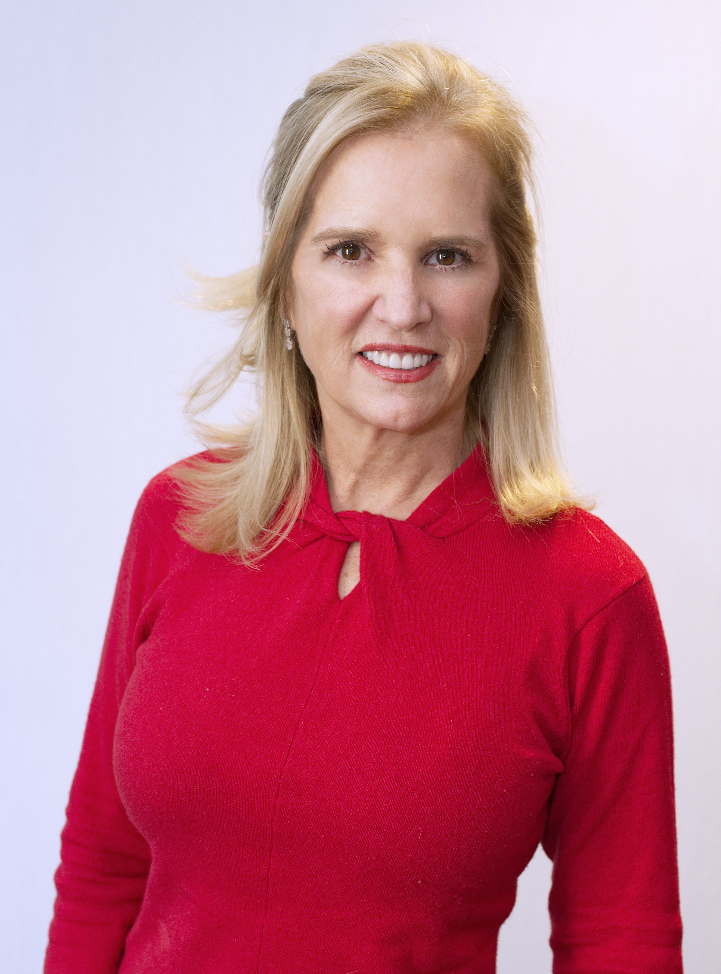 Kerry Kennedy in 2017